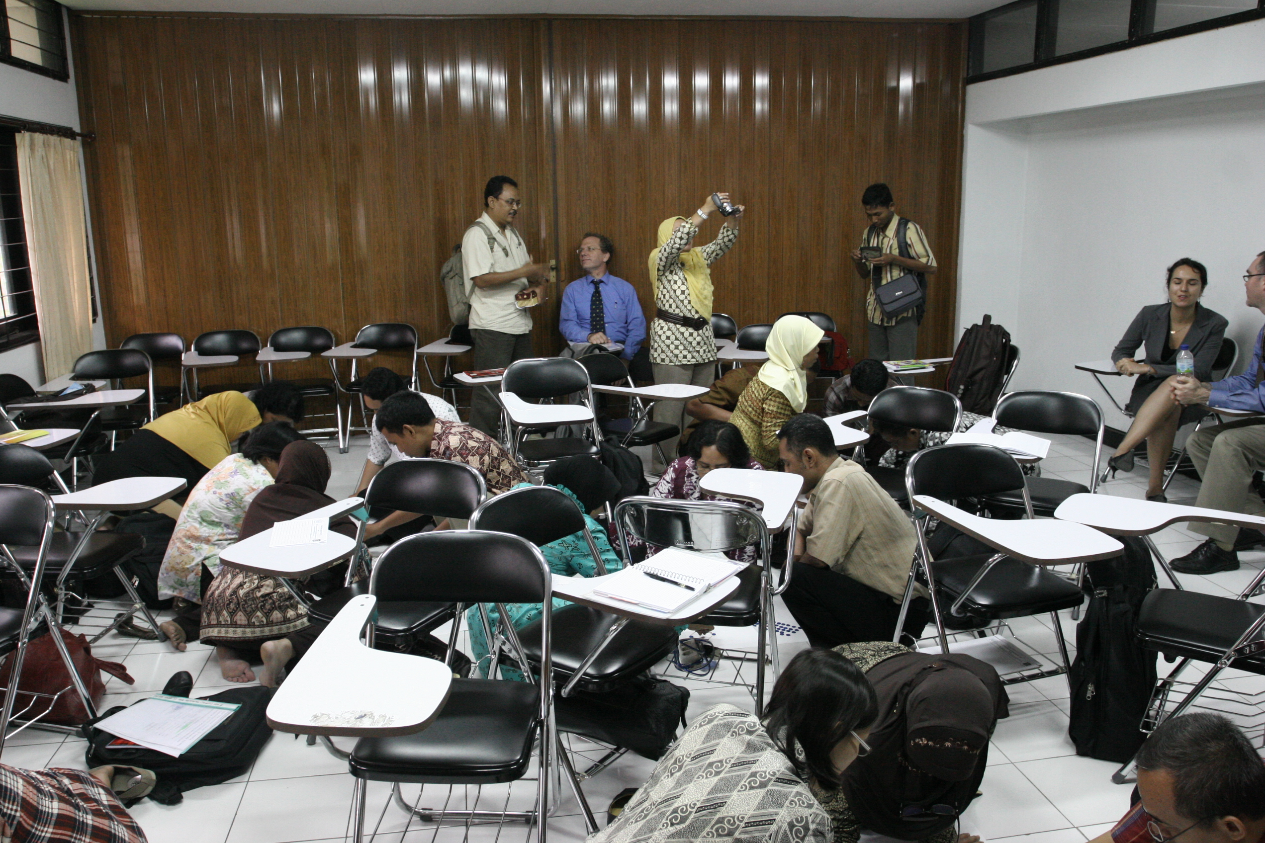 Photo: USAID/Danumurthi Mahendra